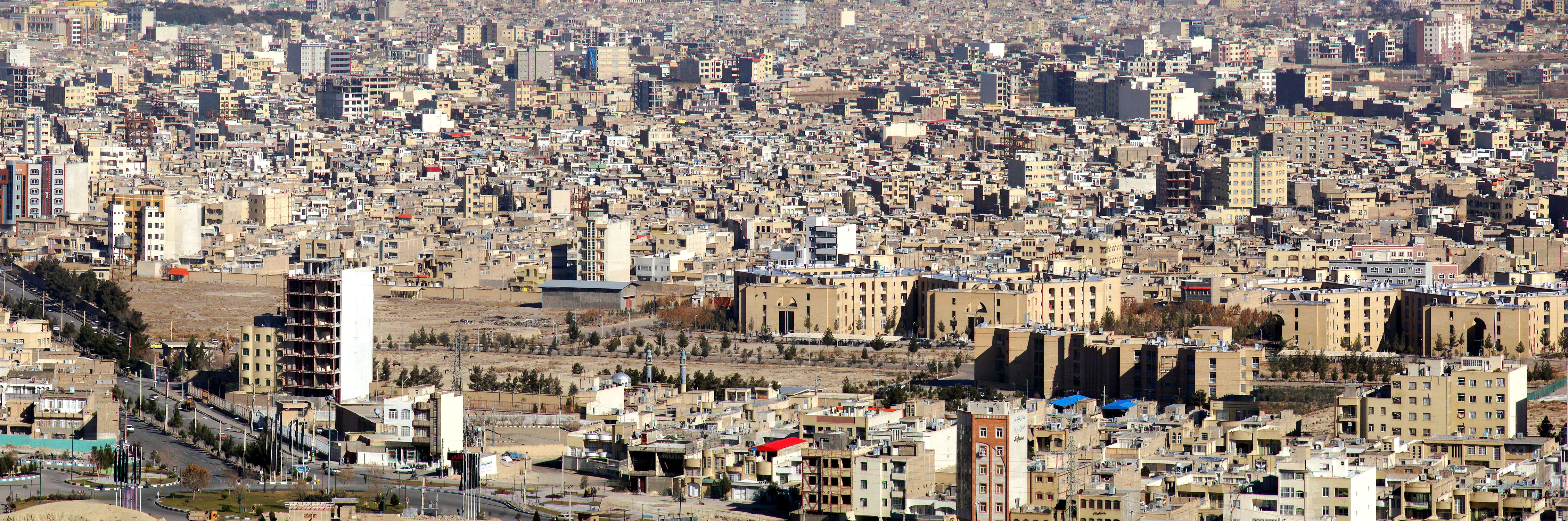 Qom, also spelled as Ghom, is the eighth largest city in Iran. It lies 125 kilometres (78 mi) by road southwest of Tehran and is the capital of Qom Province.